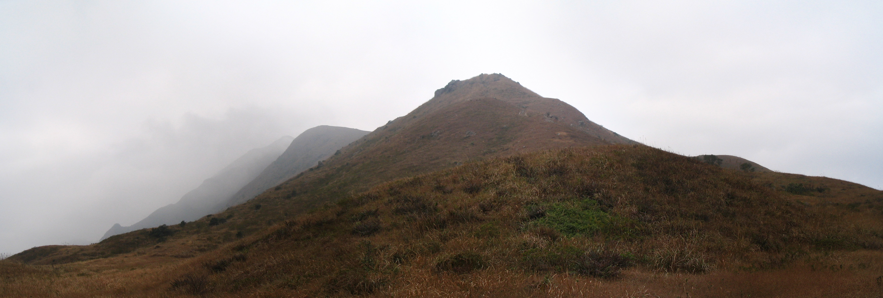 Panoramic photo of Lantau Peak, combined from 2114310235, 2115088838, 2114311465 and 2115090066